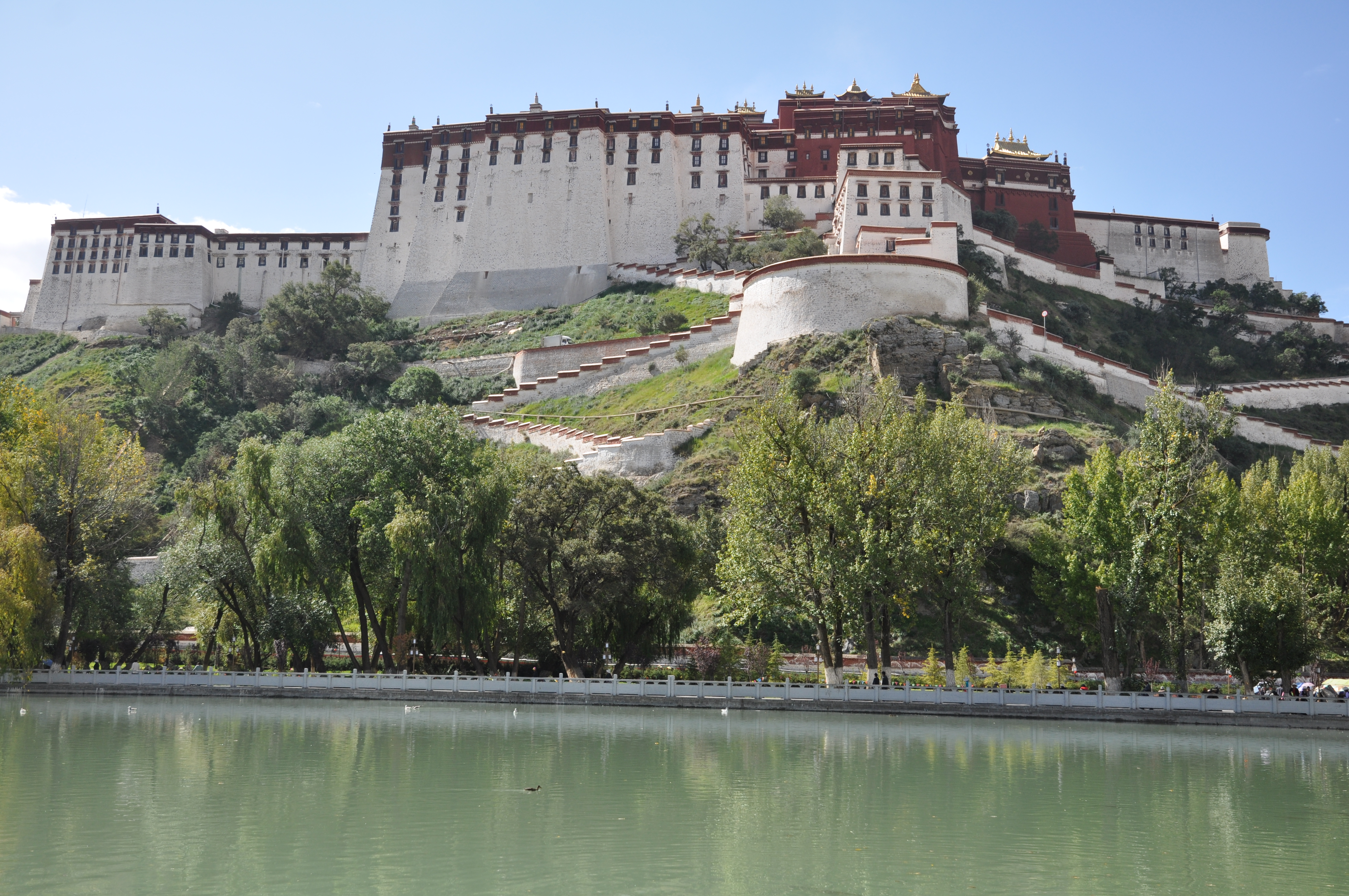 Backside of Potala Palace